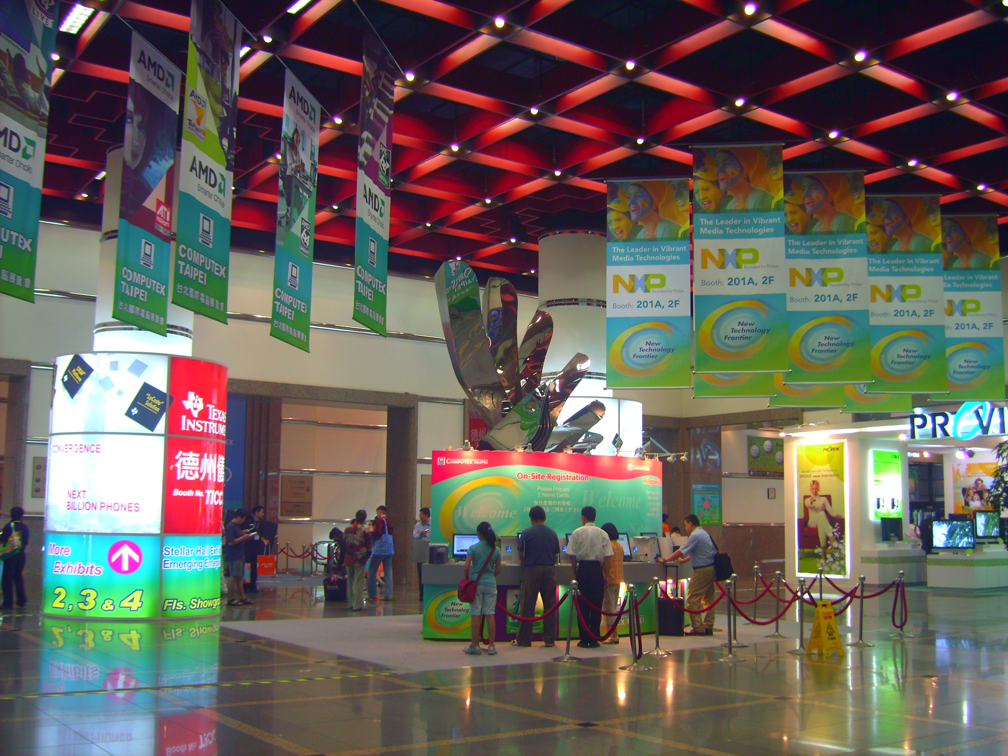 2007 COMPUTEX Taipei: Elitegroup Computer Systems at North Lounge of Taipei International Convention Center.